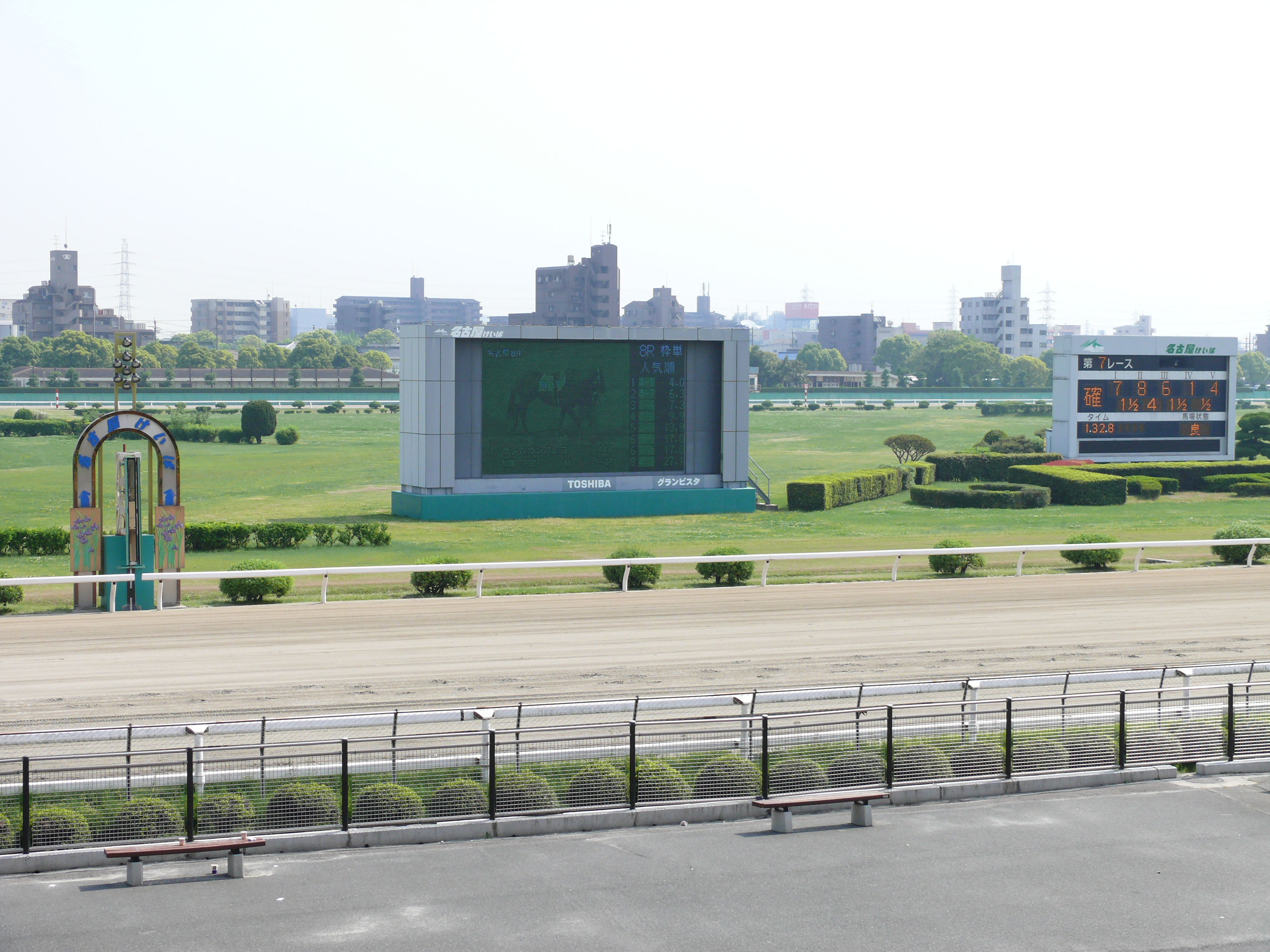 Nagoya Racecourse.